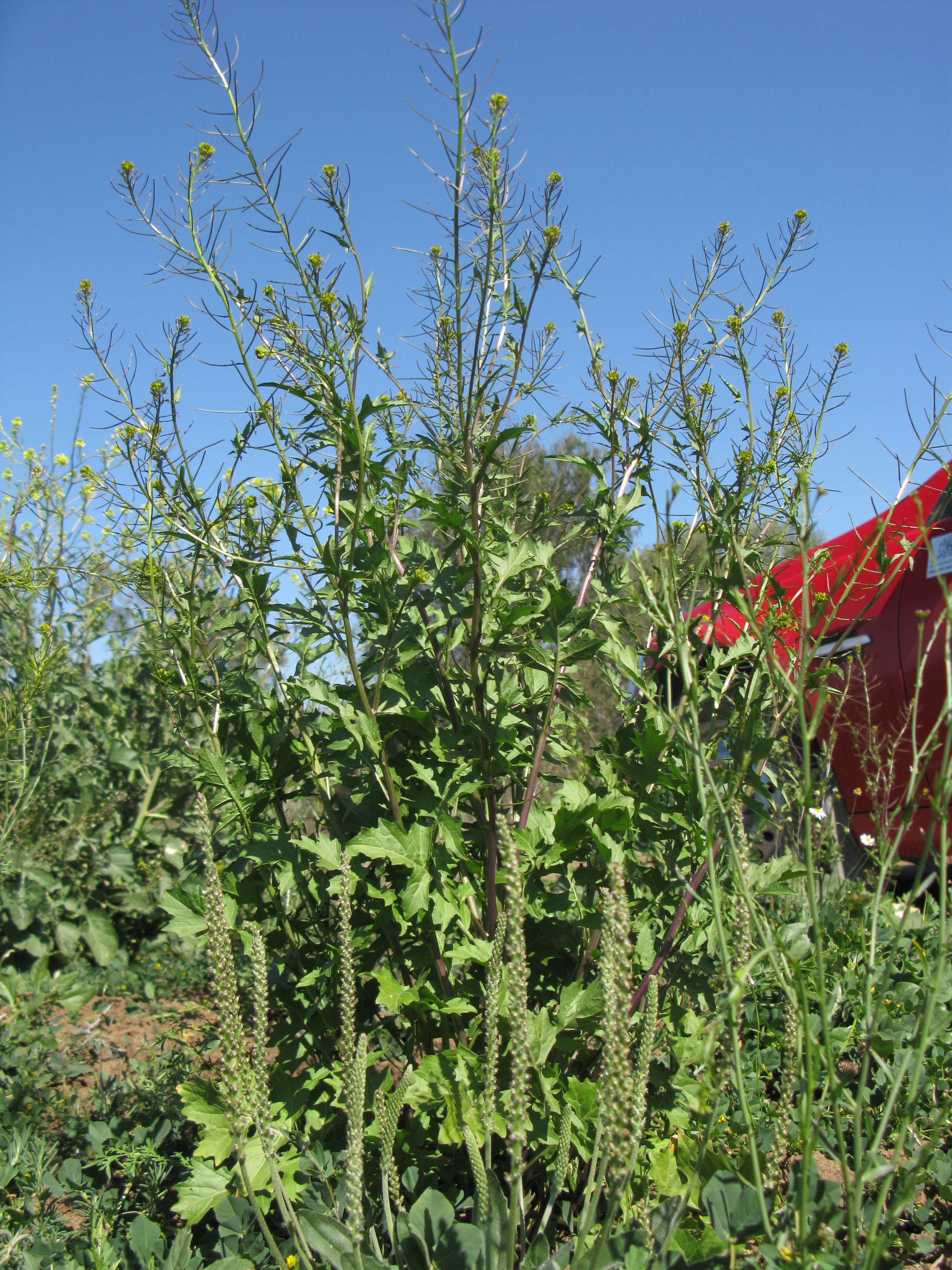 Introduced, cool season, annual, erect, glabrous or shortly pubescent herb 10–80 cm tall. Basal leaves are to 15 cm long, lyrate-pinnatifid, toothed, petiolate, reducing to lanceolate, mostly toothed. Flowerheads are paniculate. Sepals are 1–2 mm long and glabrous. Petals are 1–2.5 mm long, yellow to pale yellow. Siliqua are linear, straight, horizontal, 2.5–5 cm long, 1 mm wide and attenuate into a style; pedicels are thick and 2–5 mm long. Flowering is in late winter and spring. Widespread in dry regions west of the Tablelands.